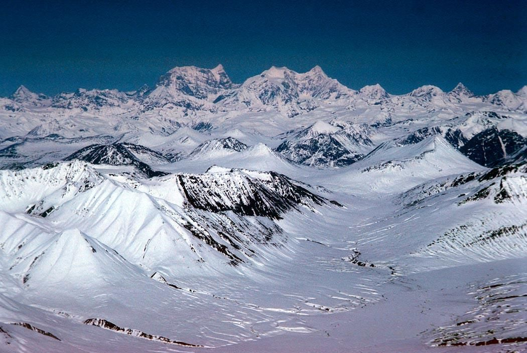 Image title: Alaska mountain range Image from Public domain images website